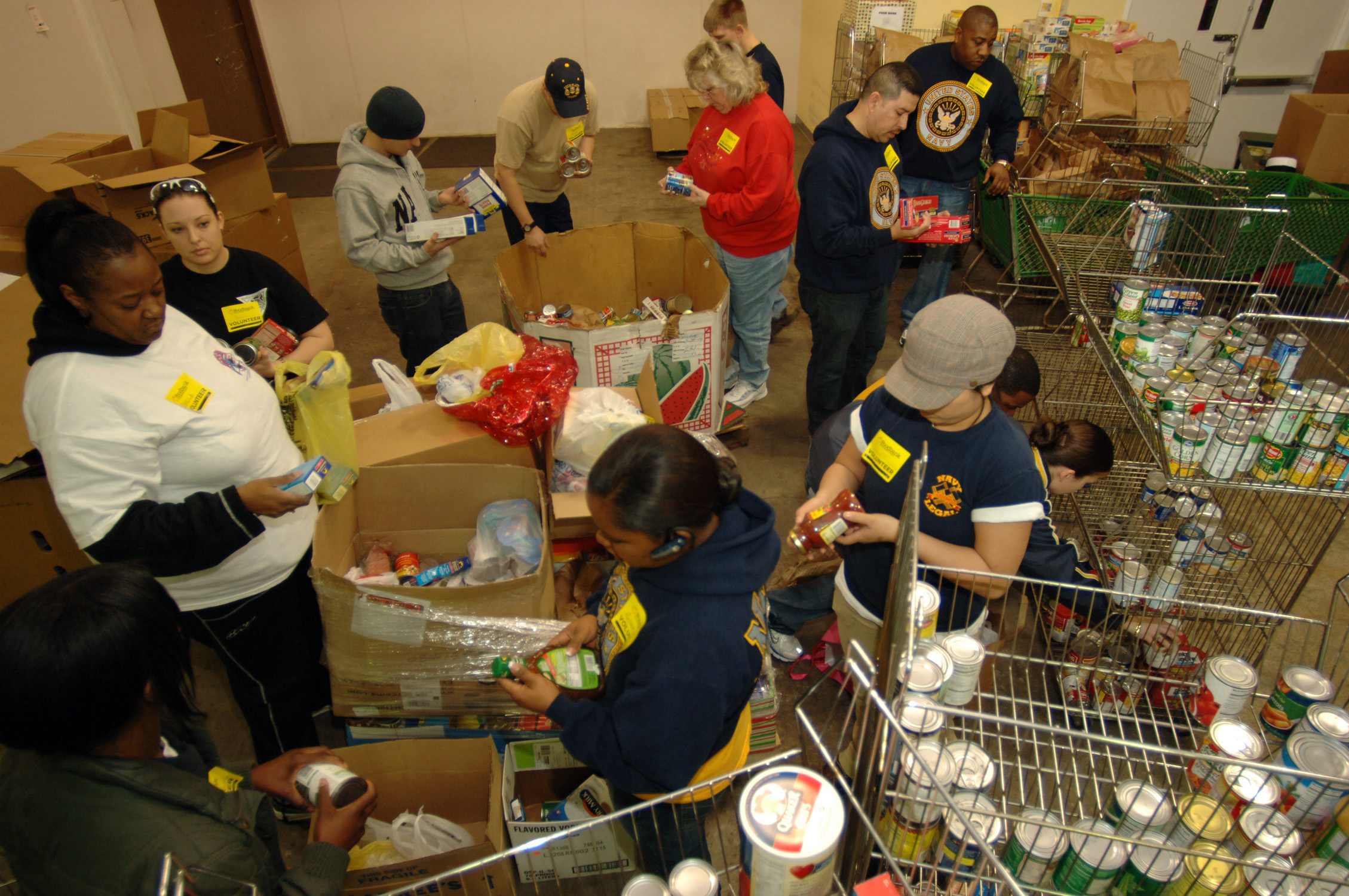 NORFOLK (Feb. 19, 2009) Sailors sort through food items checking expiration dates while volunteering at The Food Bank of Southeastern Virginia. The volunteer project was part of a two-day training conference at Naval Station Norfolk to promote the Navy's Community Service Program. (U.S. Navy photo by Mass Communication Specialist 3rd Class Maddelin Angebrand/Released)